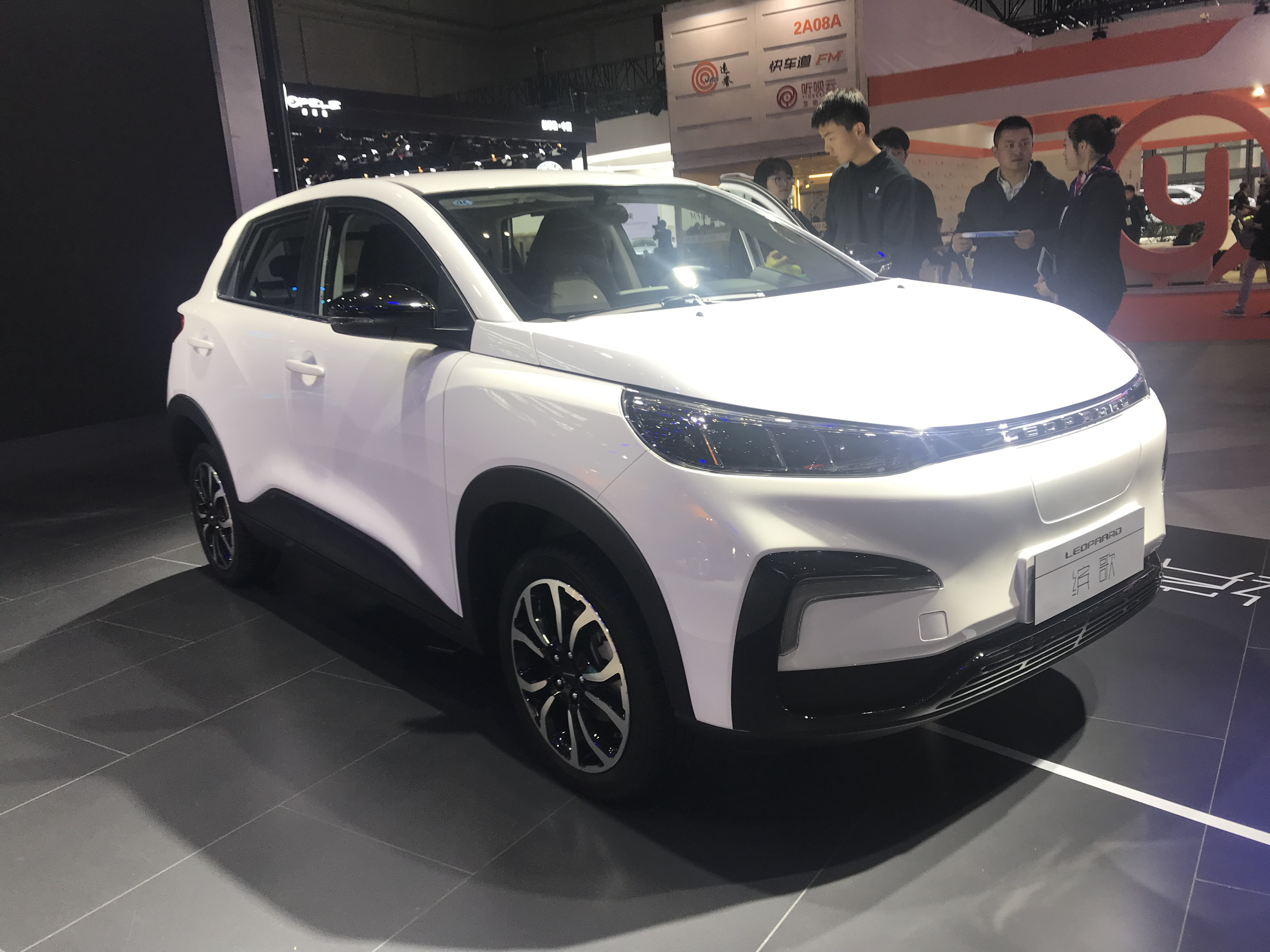 Leopaard Bingge (CS3)